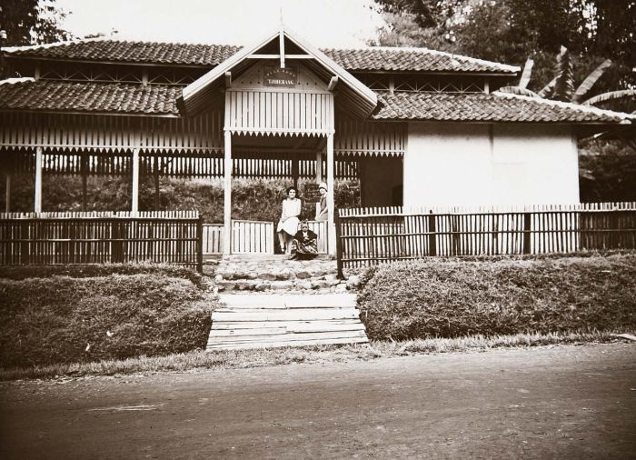 Town hall, Tjiherang